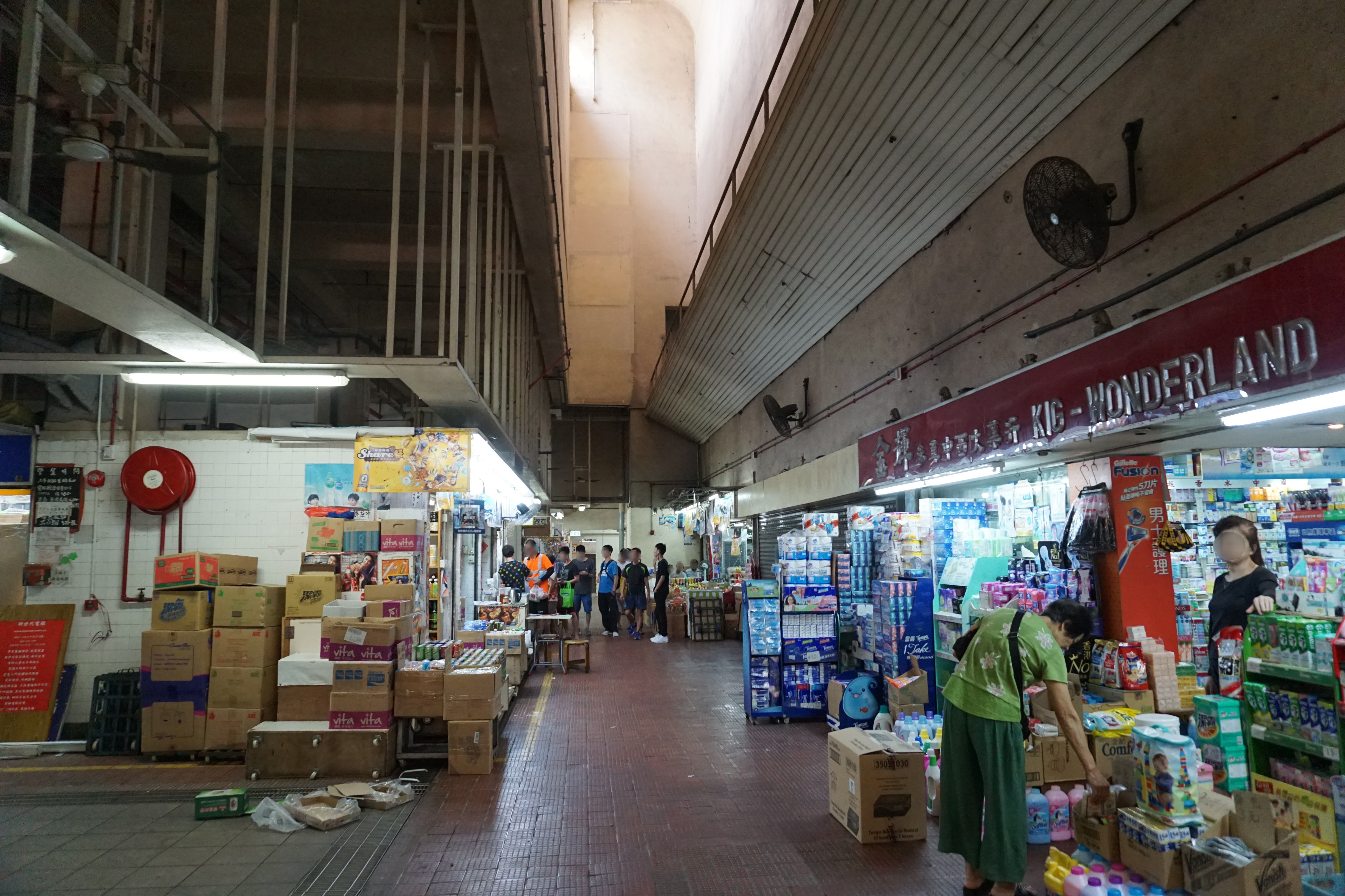 Tin Ping Market in Sheung Shui, Hong Kong.